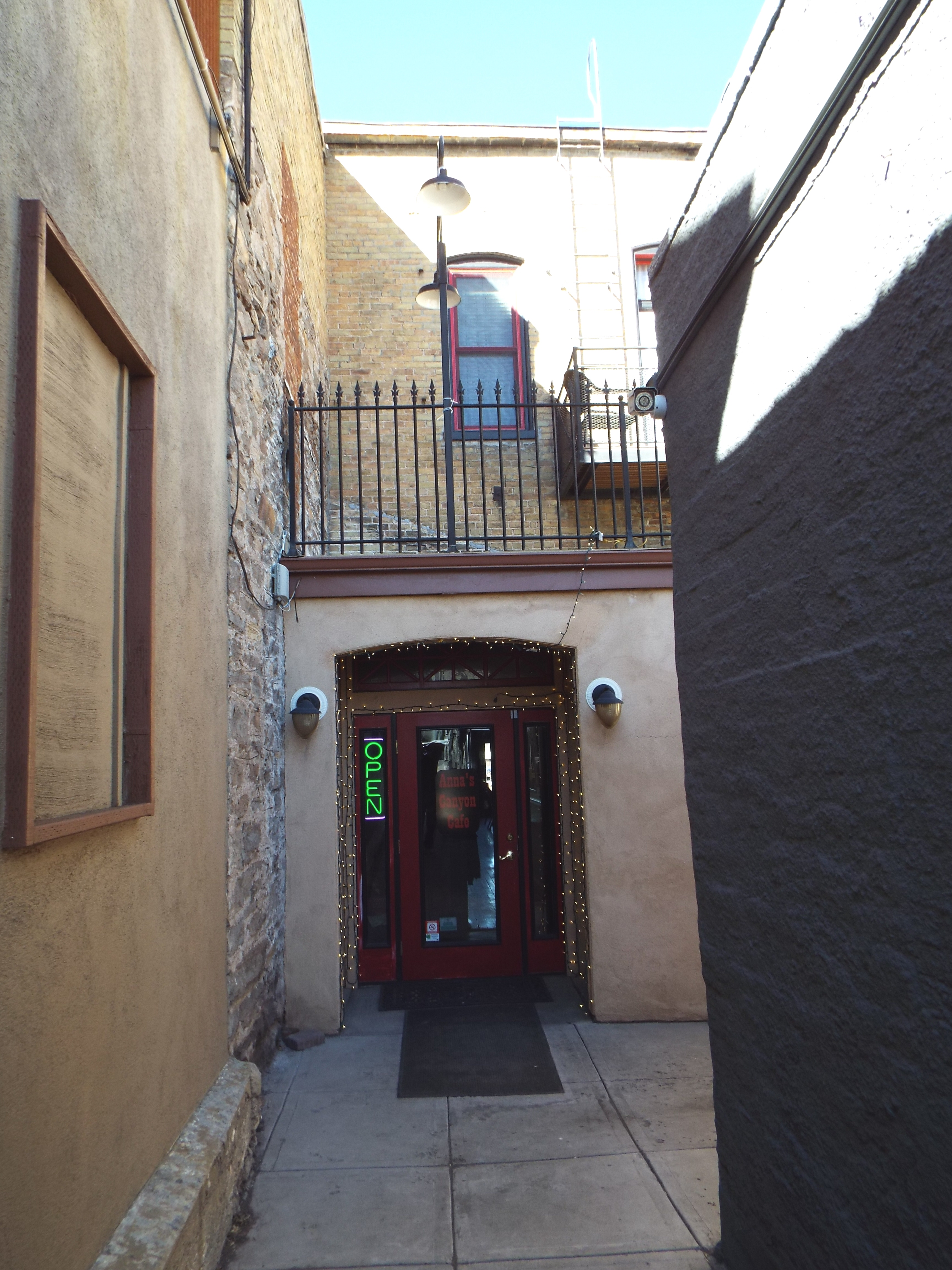 Where Wu's Joint Opium Den and Alley behind the historic Tetzlaff Hotel was located in Williams, Arizona